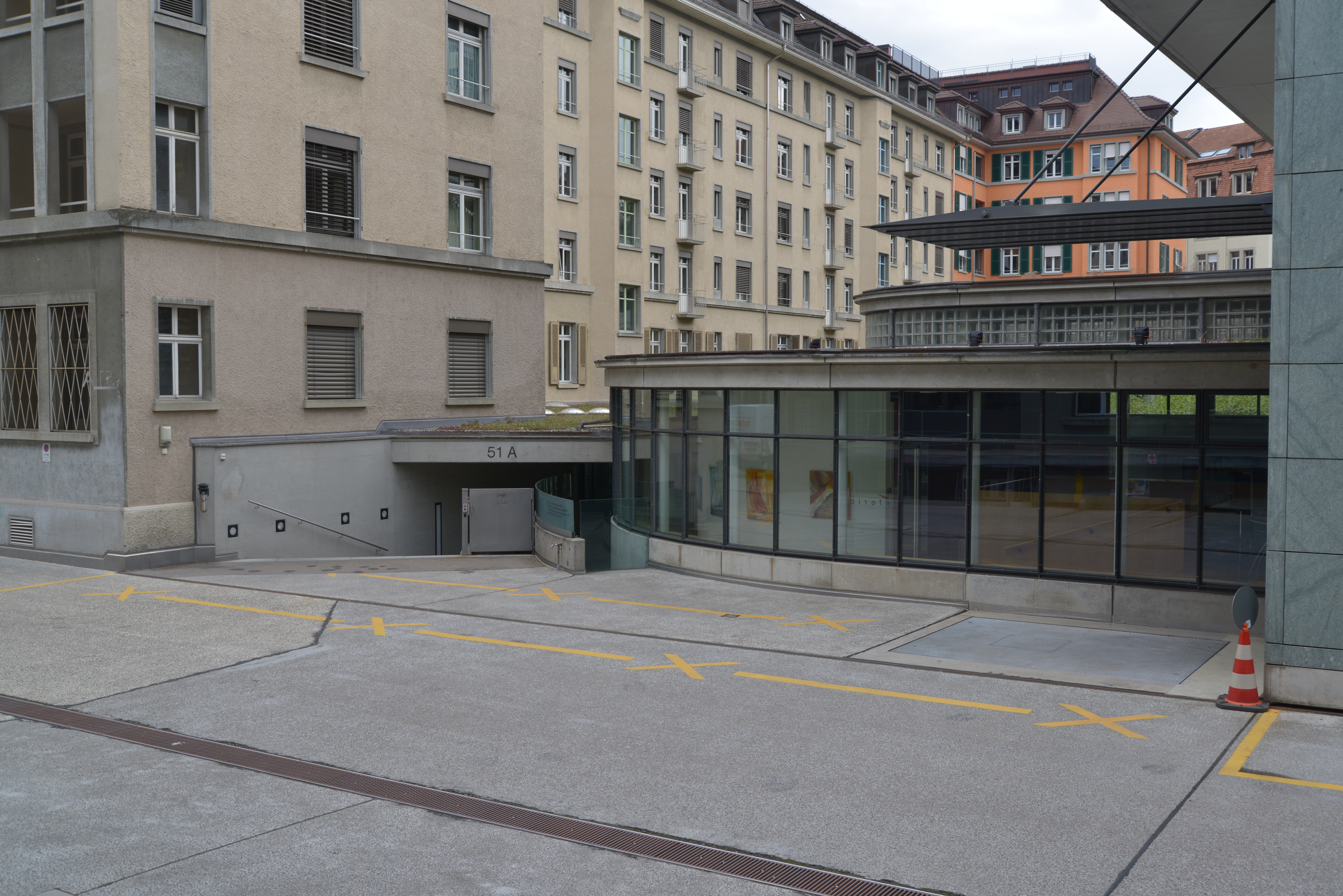 Entrance of administrative building, Monbijoustr. 51A, 3003 Bern